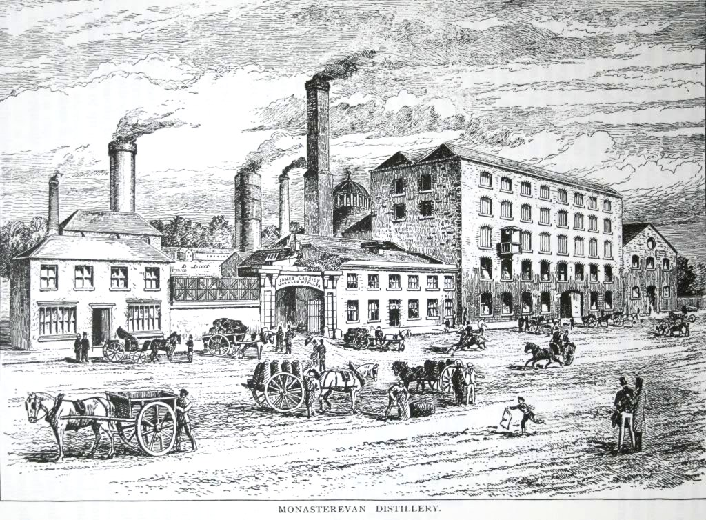 View of the Cassidy & Co. / Monasterevan distillery in 1887, from Alfred Barnard